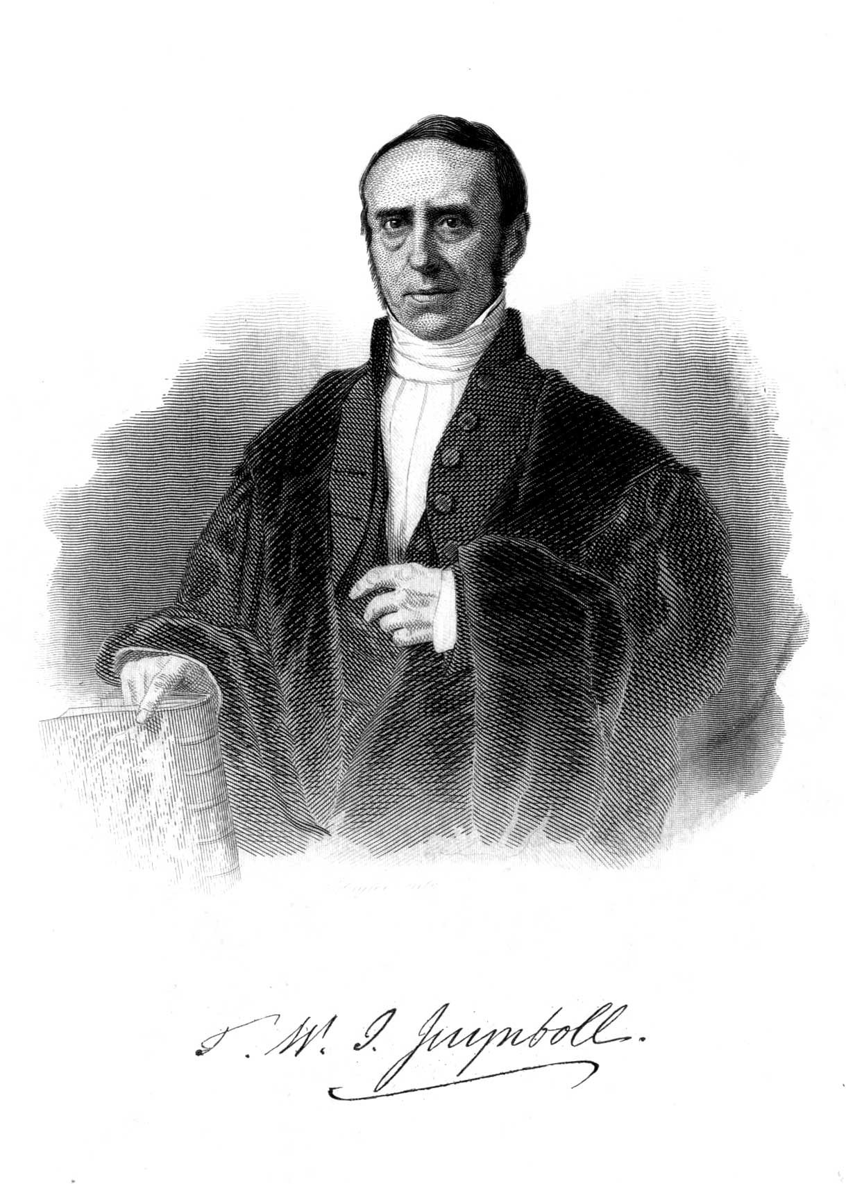 Theodoor Willem Johannes Juynboll (1802-1861) Dutch Reformed theologian and scholar of oriental